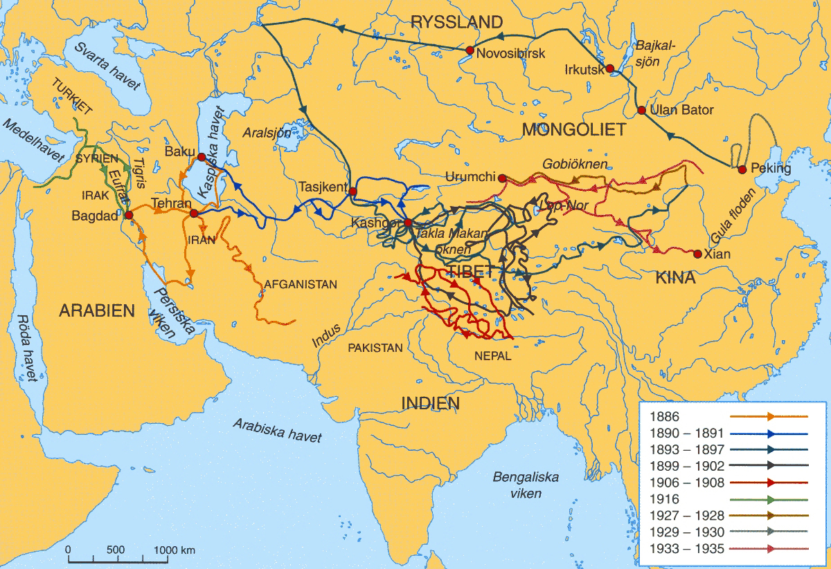 Exploring expeditions of Sven Hedin 1886-1935.